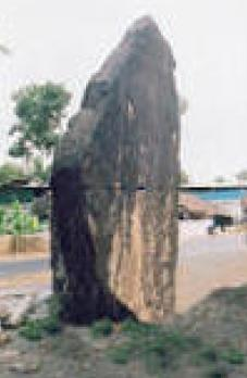 The megalithic monument of the menhir type in granite found in Ramavarmapuram, Thrissur, Kerala, India. The monument is protected by the Archaeology Department of Govt of Kerala since 1944.